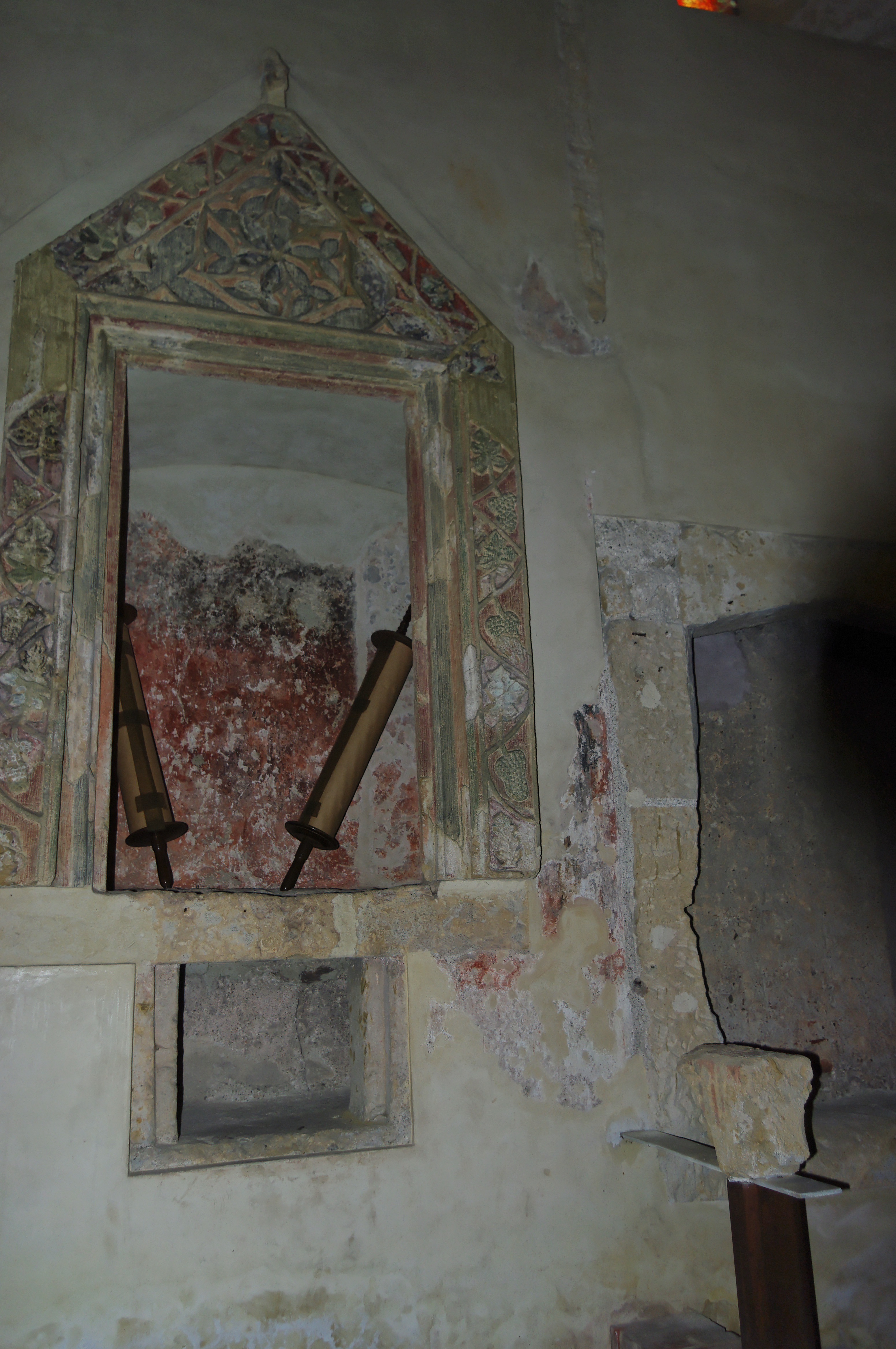 A wall niche for holding scripture scrolls in the Mikveh room, a ritual Jewish bath, inside the old Medieval Synagogue of Sopron, Hungary.